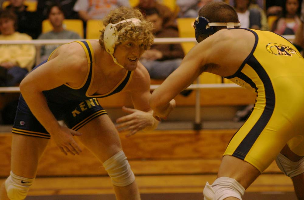 Two college students wrestling (collegiate, scholastic, or folkstyle) in the United States.wrestling assignment.jpg